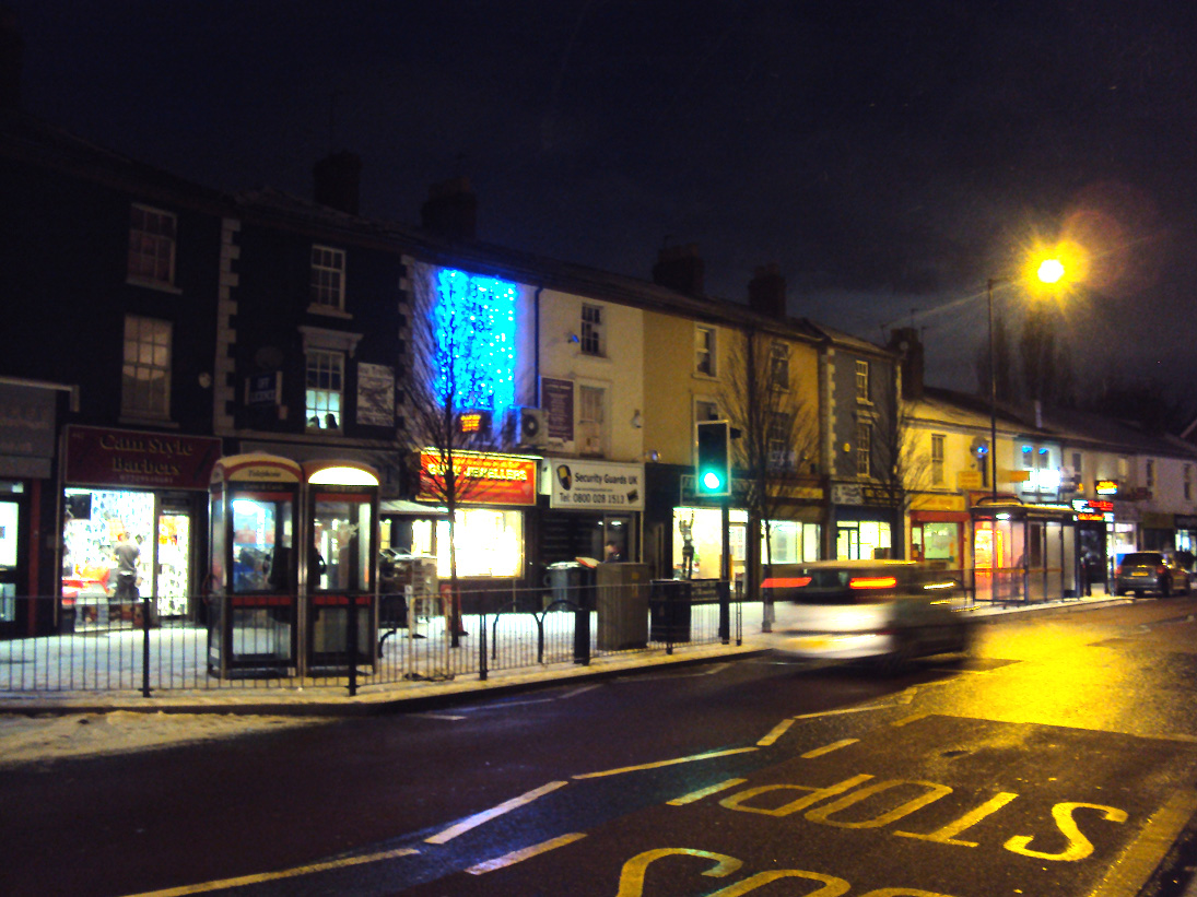 Terraced shop fronts at Dudley Road, Blakenhall, taken in early December 2010 on a cold evening with snow on the ground.